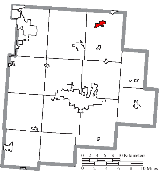 Map of the municipal and township boundaries of Fairfield County, Ohio, United States, as of the 2000 census, with the location of the village of Millersport highlighted. Township borders are shown only in unincorporated areas in order to differentiate incorporated and unincorporated areas more clearly.